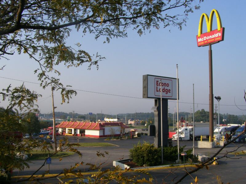 Cloverdale by I-70.